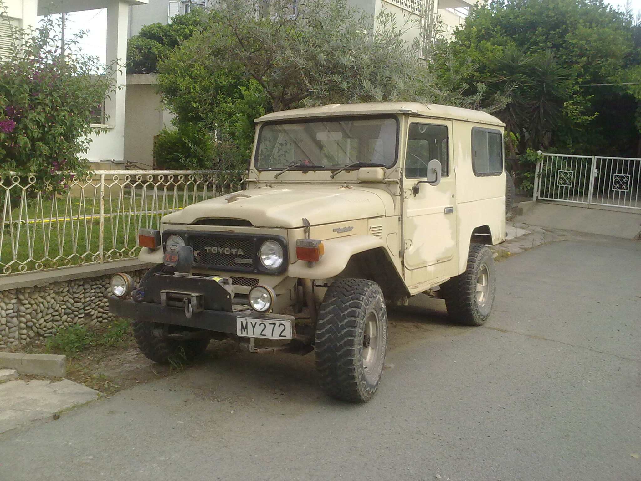 A 1980s land cruiser in Nicosia